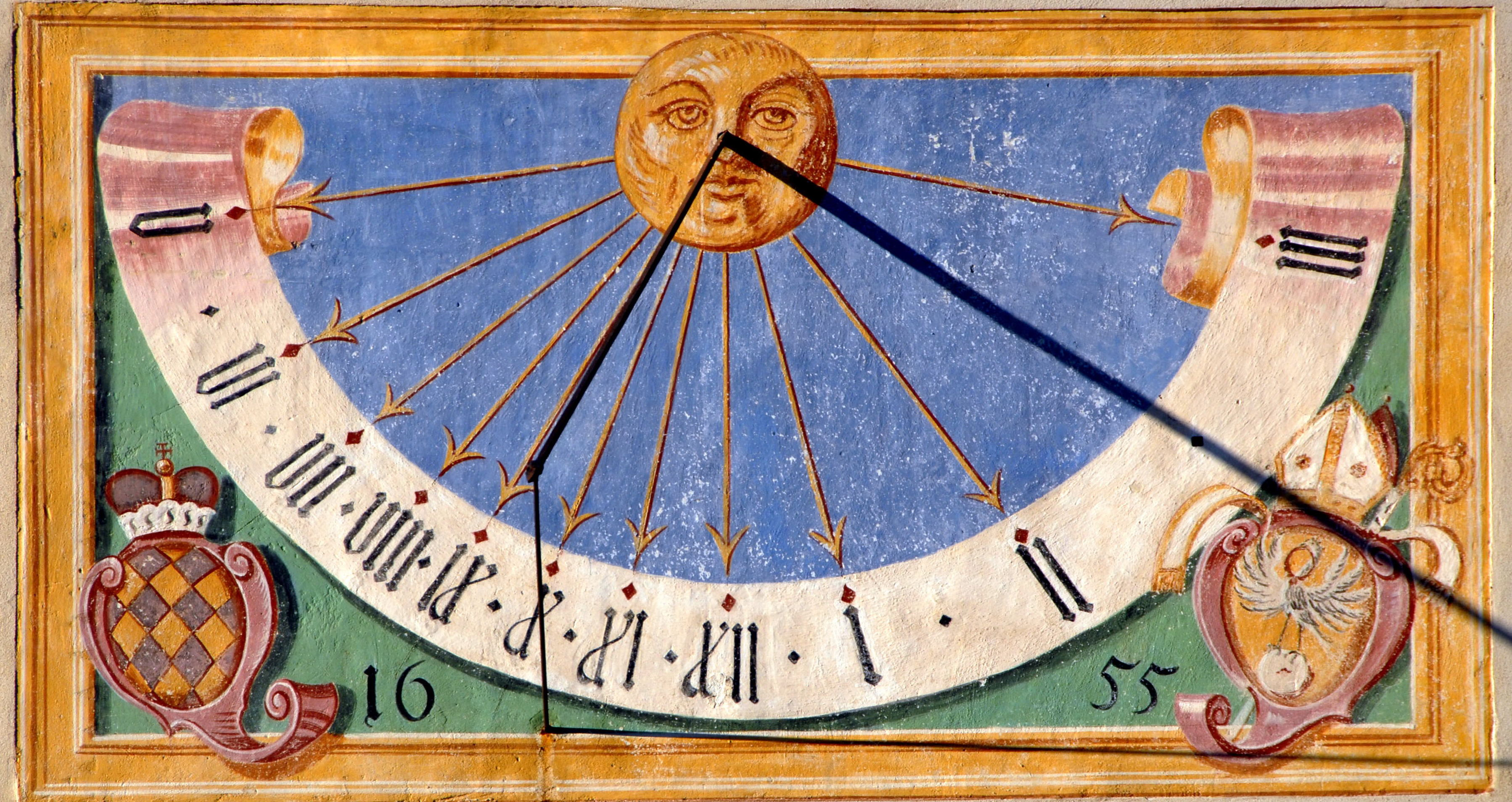 Sundial on the southern exterior wall of the priory building on Domplatz #1, market town Gurk, district Sankt Veit an der Glan, Carinthia, Austria, EU